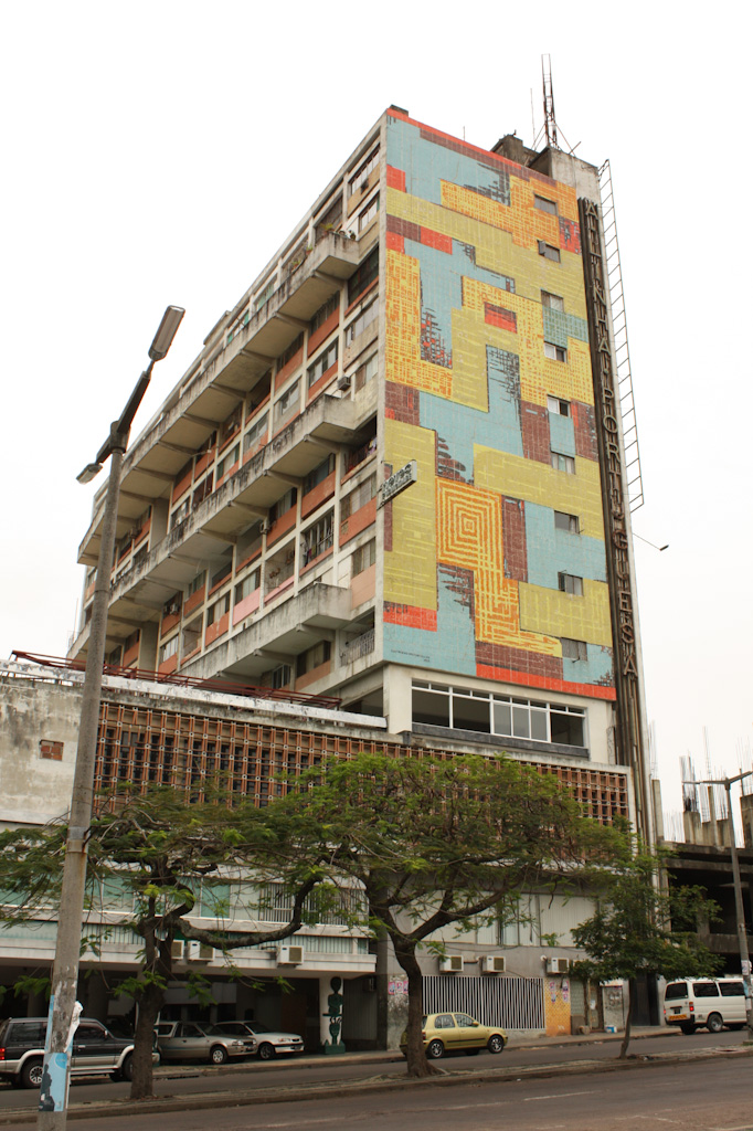 Former TAP/Montepio building, Av. Samora Machel, Maputo, Mozambique